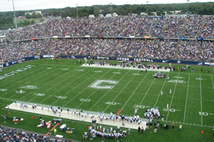 Rentschler Field during the first quarter of the North Carolina at UConn football game.